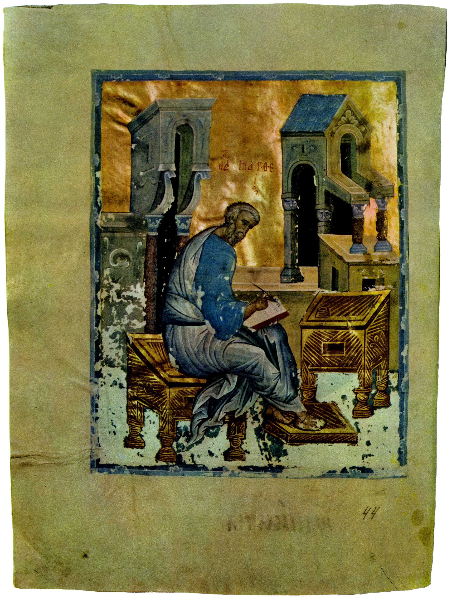 Khitrovo Gospels